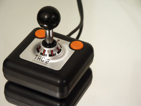 TAC-2, photographed on a mirror.